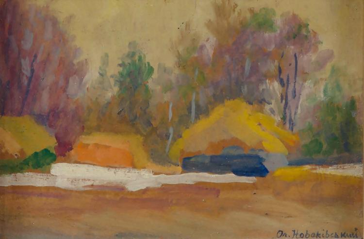 Early spring in the mountains by Oleksa Novakivsky. Signed bottom right.